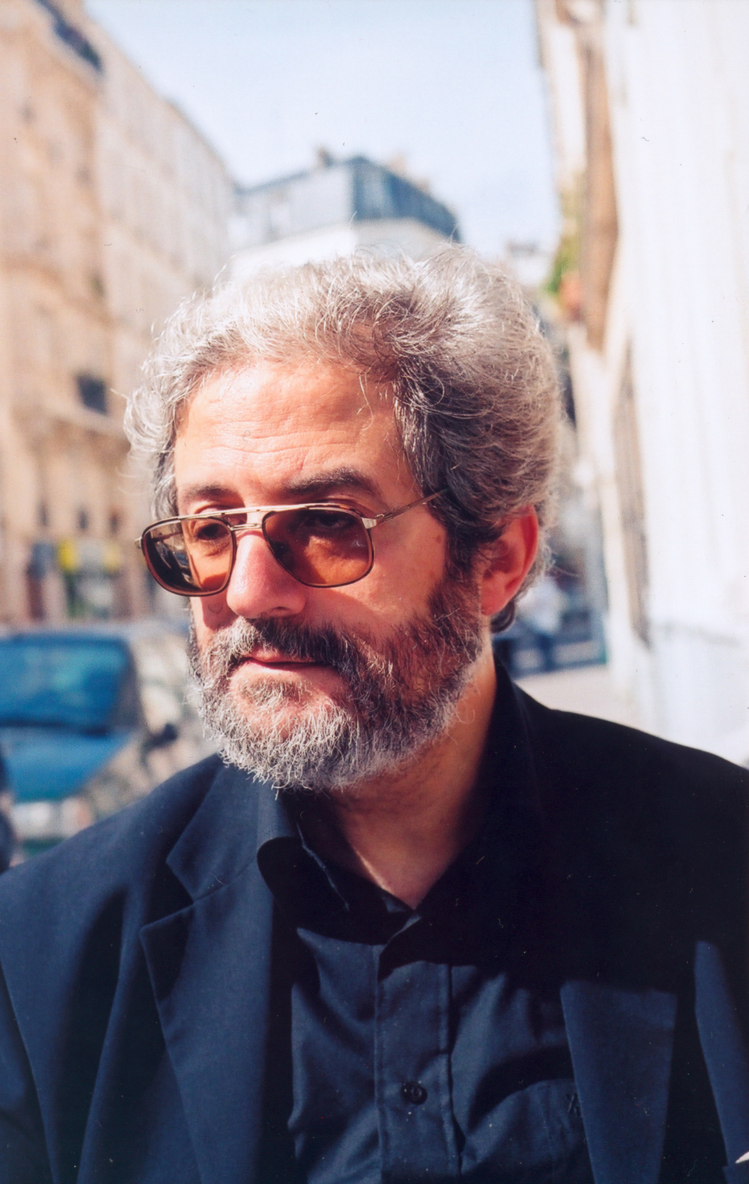 Photo of Raphaël Bassan